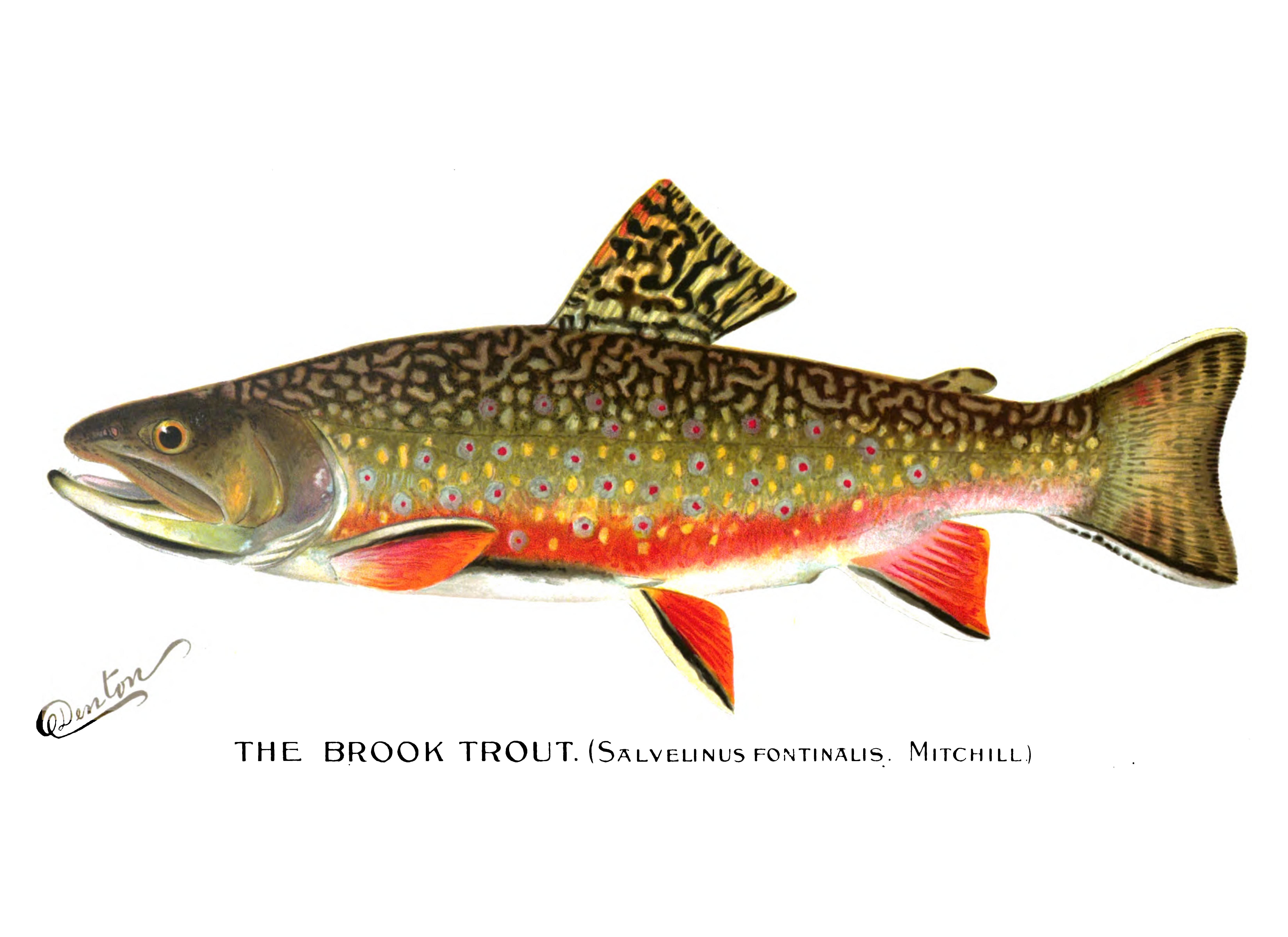 Watercolor of the brook trout by SF Denton.